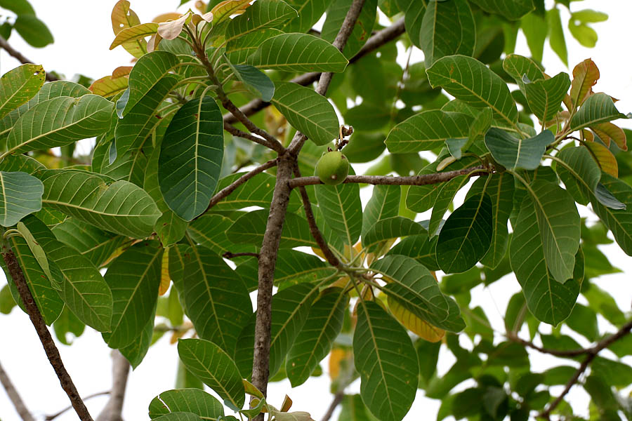 Madhuca longifolia var. latifolia (syn. Bassia longifolia, B. latifolia, M. indica, M. latifolia, Illipe latifolia, I. malabrorum) - Indian Butter Tree • Hindi: Mahua महुआ • Bengali: Maul • Hindi: Mohwa • Marathi: Kat-illipi • Malayalam: Illupa • telugu: Ippa - in Narsapur, Medak district, Andhra Pradesh, India.